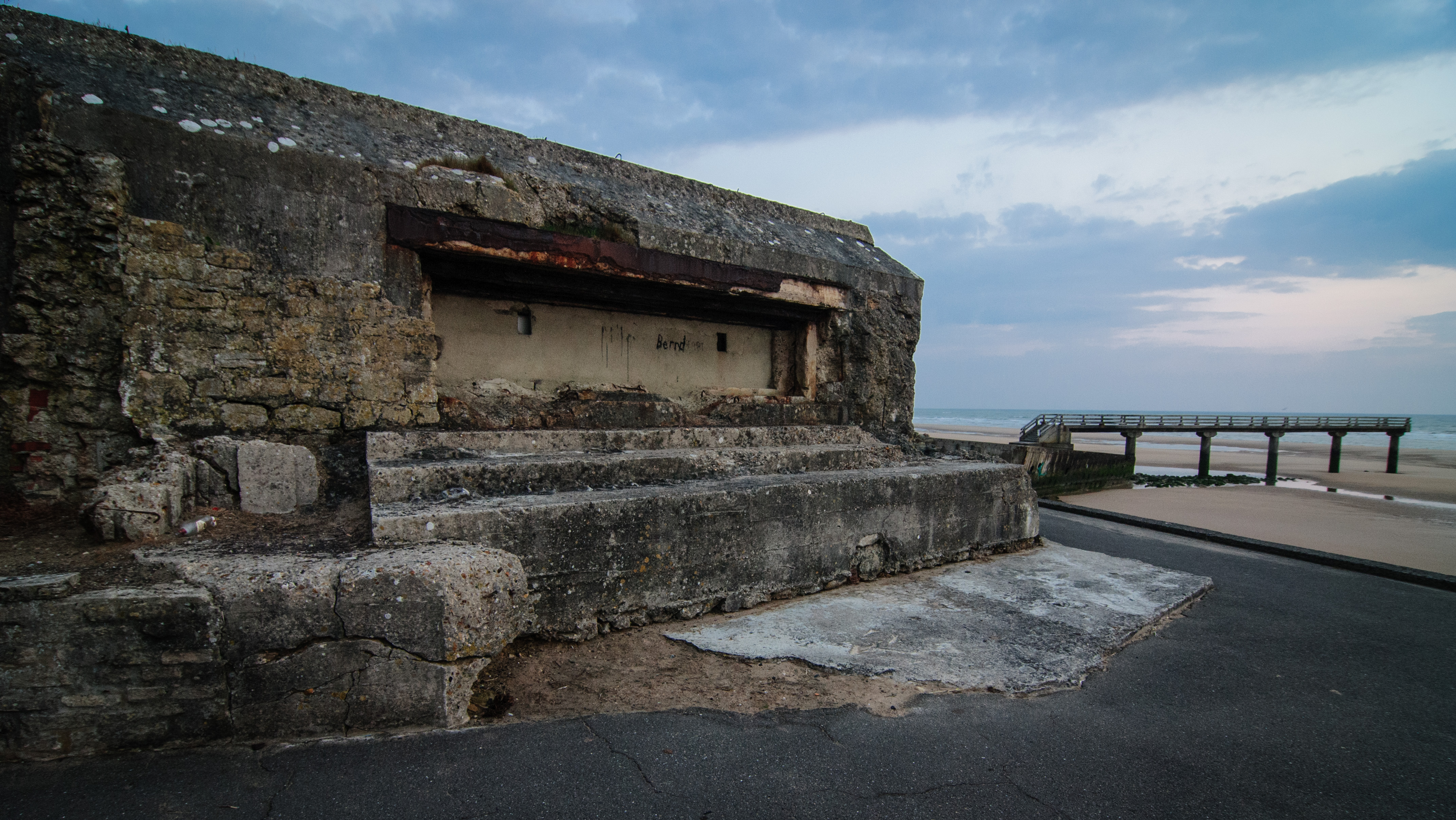 6th of june, D-Day 2013, Omaha Beach. Tokina AT-X Pro SD 12-24mm F4 (IF) DX